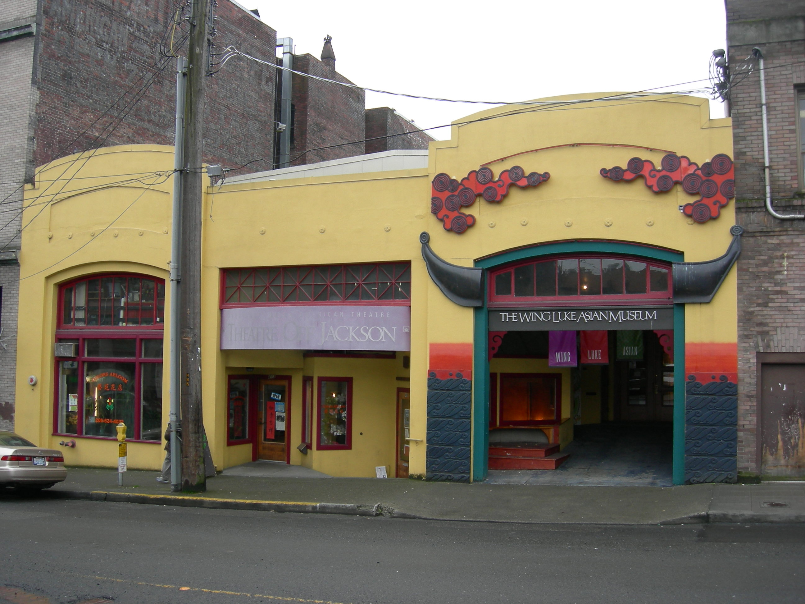 Wing Luke Asian Museum and Theatre Off Jackson, International District, Seattle, Washington